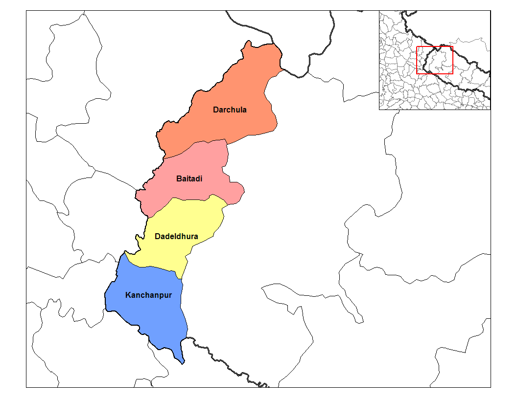 Map of the districts of Mahakali Zone (wp-EN) in Nepal. Created by Rarelibra 19:32, 18 September 2006 (UTC) for public domain use, using MapInfo Professional v8.5 and various mapping resources.